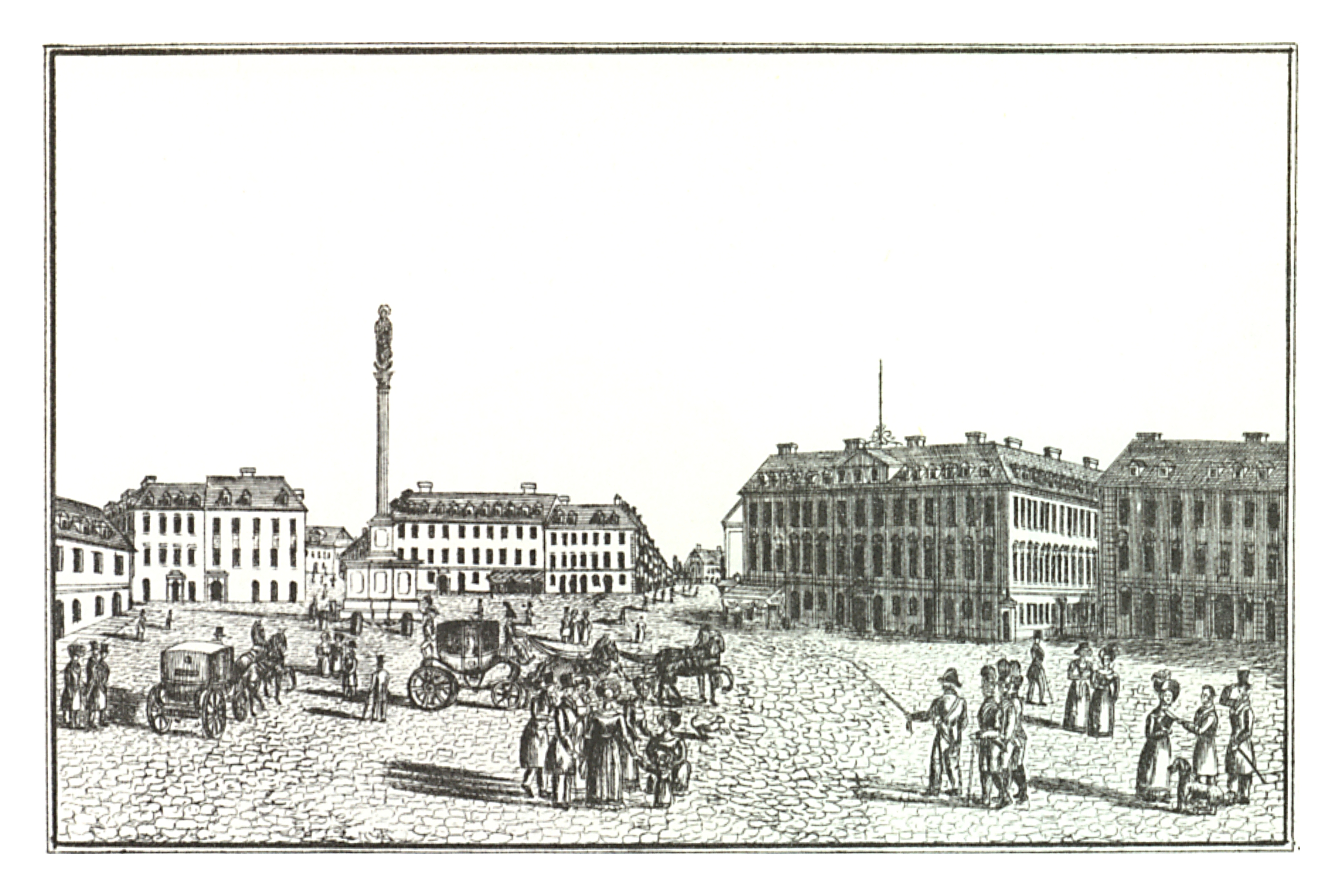 J. F. Kaiser - lithographirte Ansichten der Steyermärkischen Städte, Märkte und Schlösser, Graz 1824-1833 Joseph Franz Kaiser (1786–1859) Alternative names J. F. KaiserDescriptionAustrian printer and editorDate of birth/death 11 March 1786 19 September 1859Location of birth/death Graz (Styria) GrazAuthority control : Q1499963 VIAF: 30629353 ISNI: 0000 0000 3083 0153 LCCN: n87141671 GND: 129880159 NLP: A24960305 WorldCat creator QS:P170,Q1499963 . Scanprojekt Community Projektbudget 2012 This scan or this PDF-file was created within the GLAM-project Bookscanning, supported by Wikimedia Germany and Wikimedia Austria as a part of the community-project to capture books, documents and pictures which are not eligible to copyright or for which the copyright has expired. This document describes or depicts an object which is located in Austria today. Send requests for uncompressed scans to Hubertl. This work is in the public domain in its country of origin and other countries and areas where the copyright term is the author's life plus 100 years or less. You must also include a United States public domain tag to indicate why this work is in the public domain in the United States. This file has been identified as being free of known restrictions under copyright law, including all related and neighboring rights.